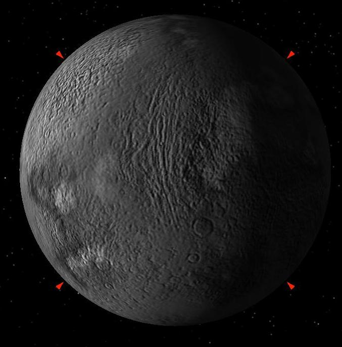 (84522) 2002 TC302 is a large red 2:5 resonant Trans-Neptunian object discovered on October 9, 2002 by Mike Brown's team at the Palomar Observatory. The surface details are fictional and simulated by Celestia.